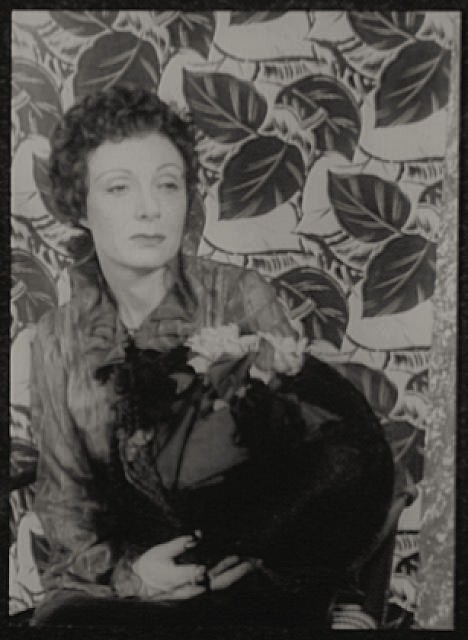 Portrait of Judith Evelyn, as Madame Arkodiva in The Seagull Portrait of Judith Evelyn (1954 June 14)